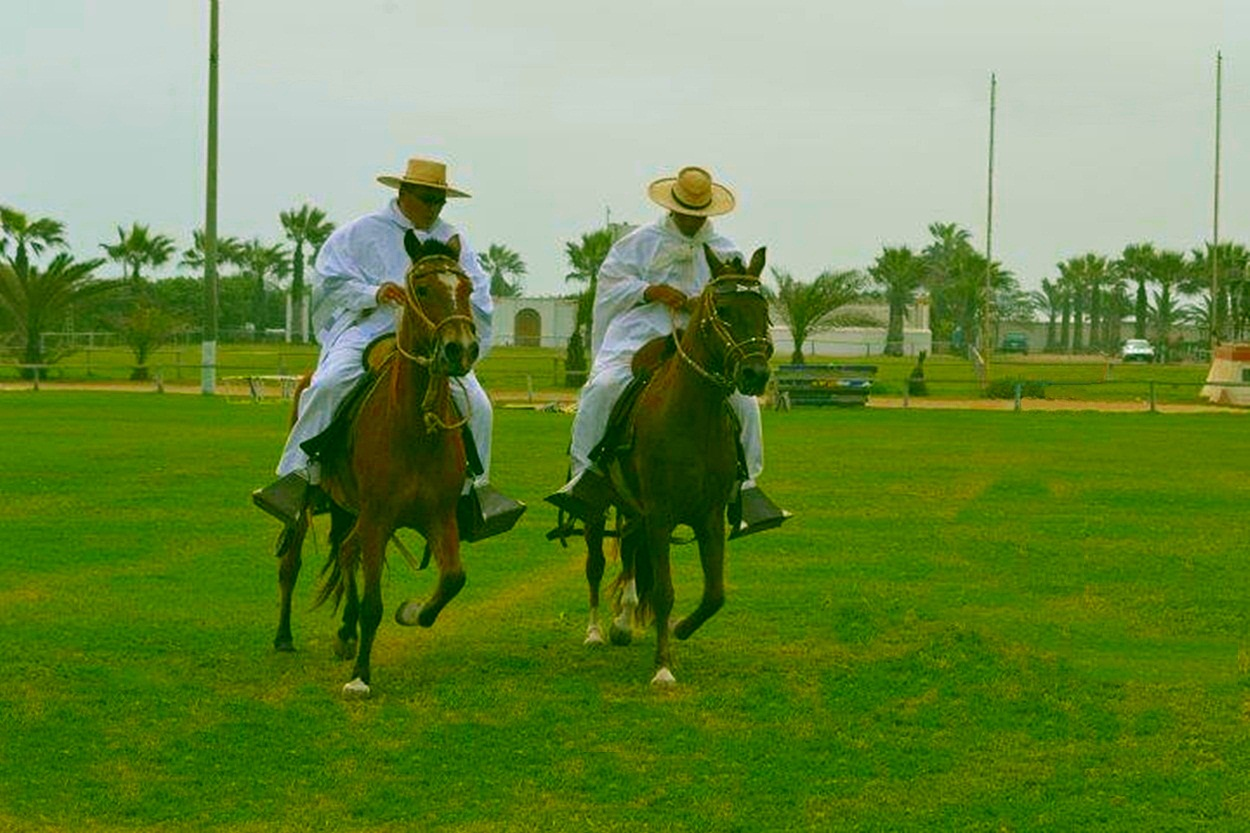 Trujillo, Cuna del Caballo de Paso Peruano